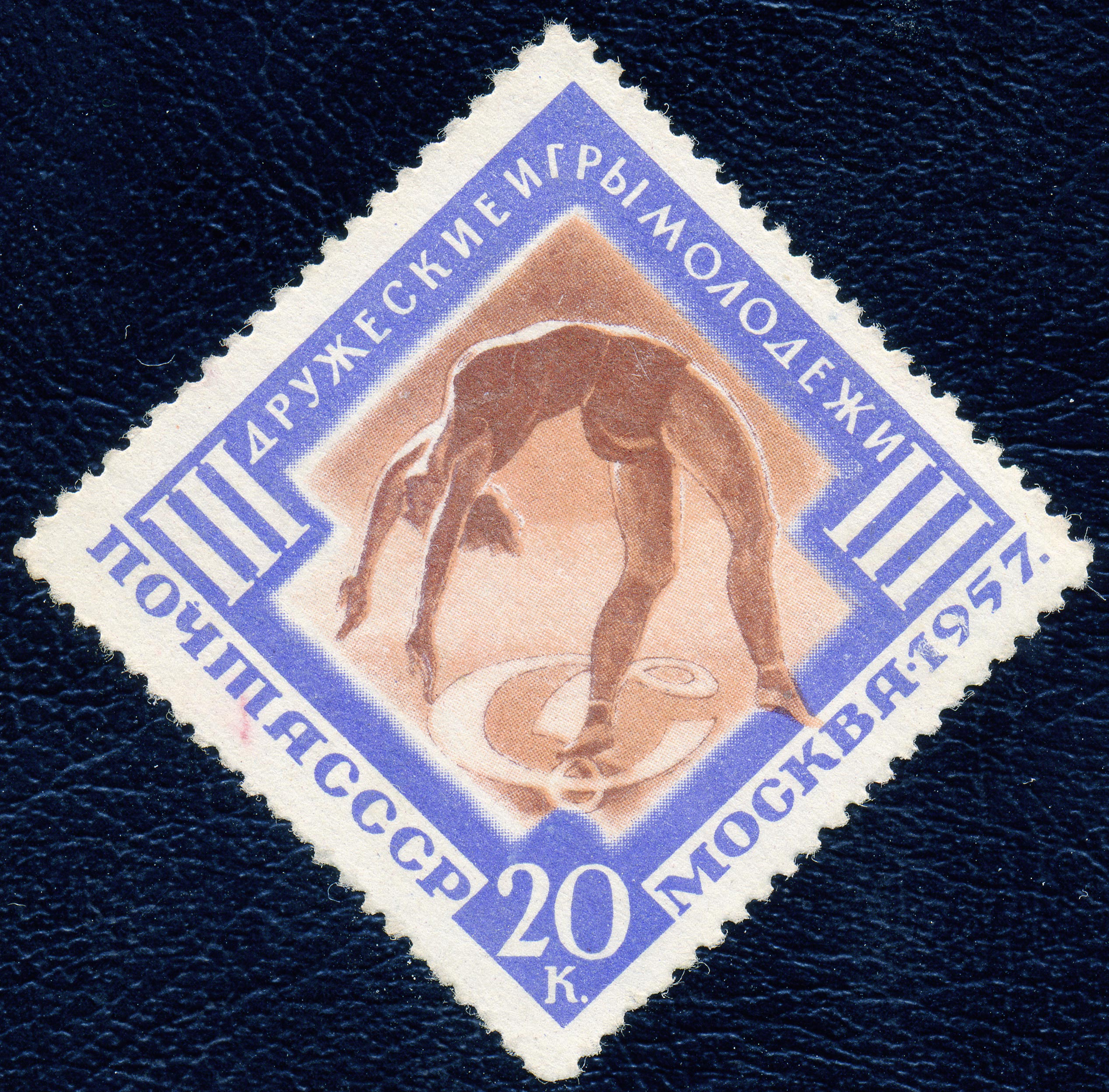 USSR stamp of 1957. 3rd friendly youth games. Gymnastics.